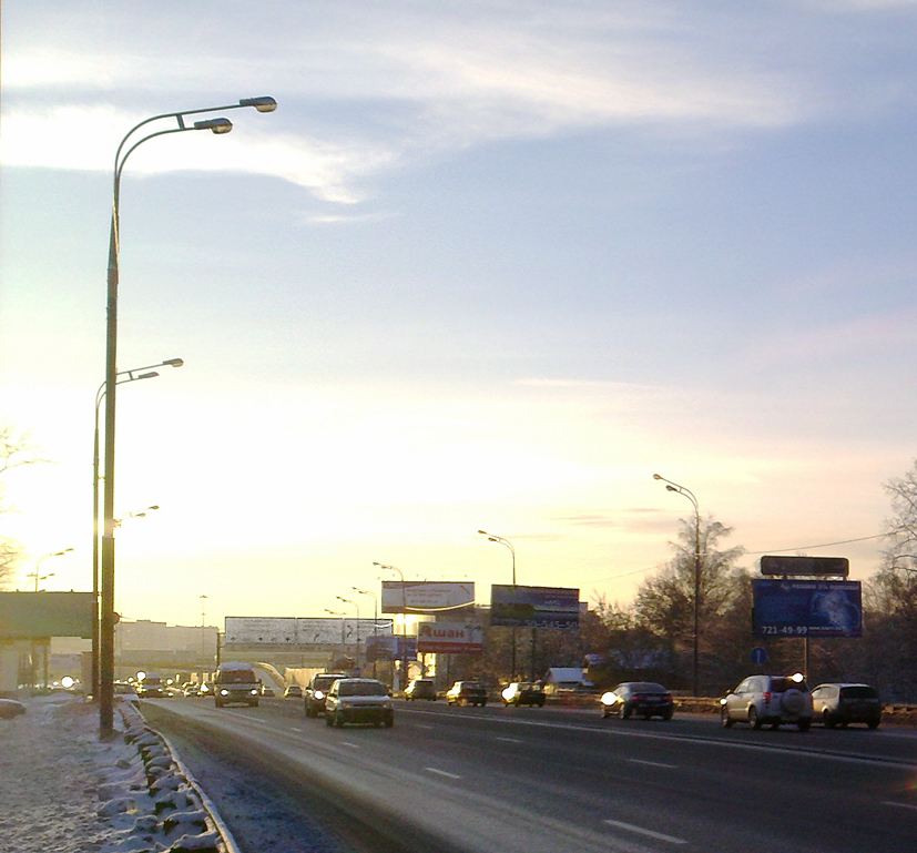 Yaroslavl highway (M8). Moscow and MKAD on background.